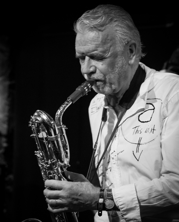 John Pål Inderberg performs with Baker Hansen at the stage of Herr Nilsen. The concert was part of the Oslo Jazz Festival in Norway and took place on 17. August 2016. Lineup:Sigurd Rotvik Tunestveit (vocal)Thomas Husmo Litleskare (trumpet)Kjetil Jerve (piano)Stian Andreas Andersen (double bass)Tore Flatjord (drums)John Pål Inderberg (baritone saxophone)